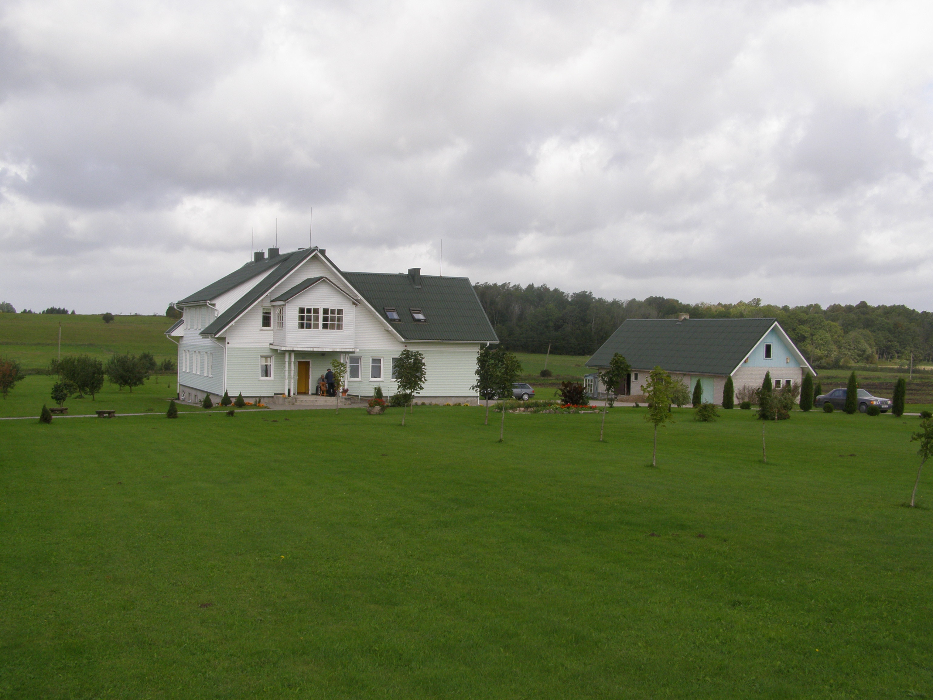 Nasrėnai, Kretinga district, LithuaniaLietuvių: Nasrėnų senelių globos namai, Kretingos rajonas, Lietuva